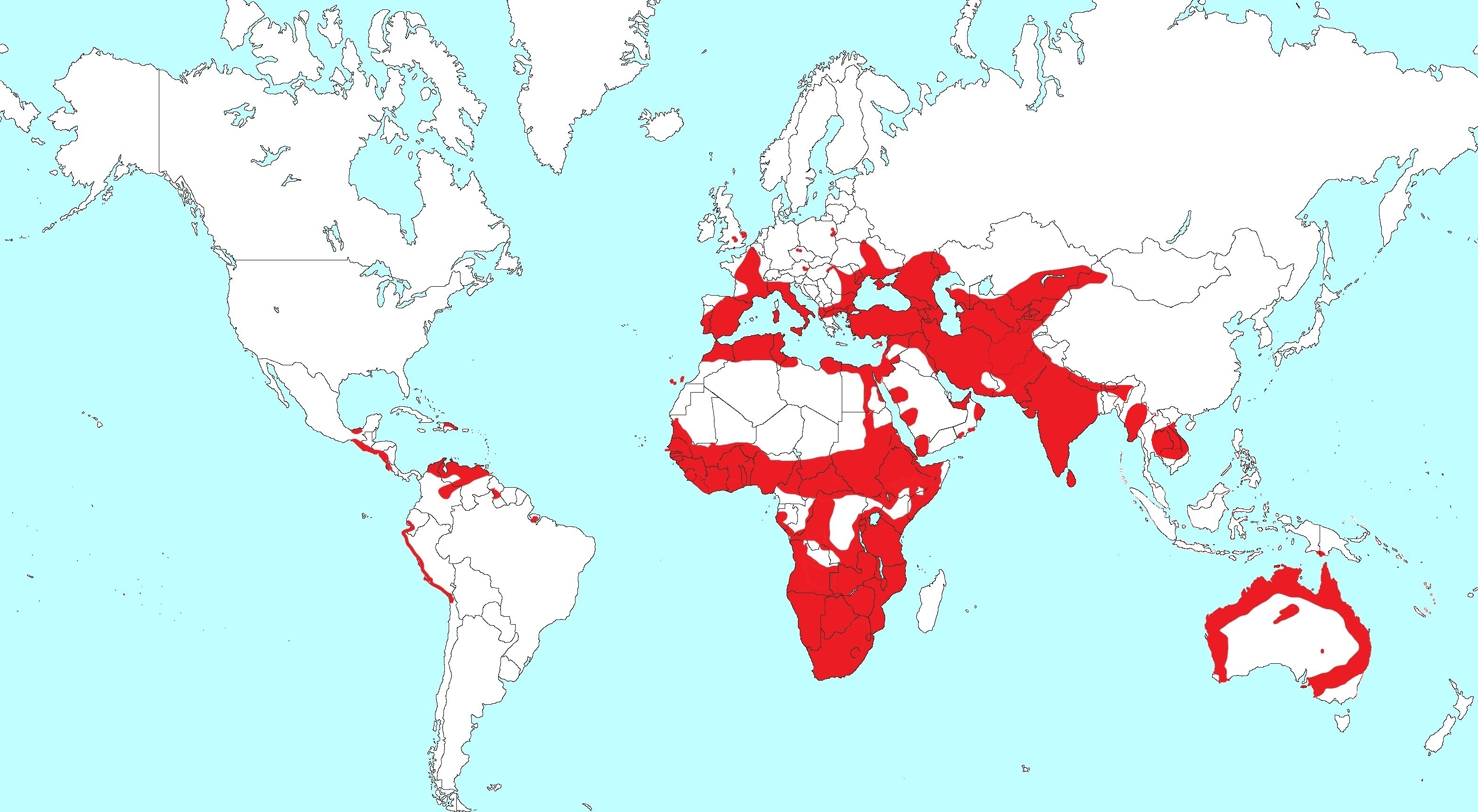 Modern world range of genus Burhinus